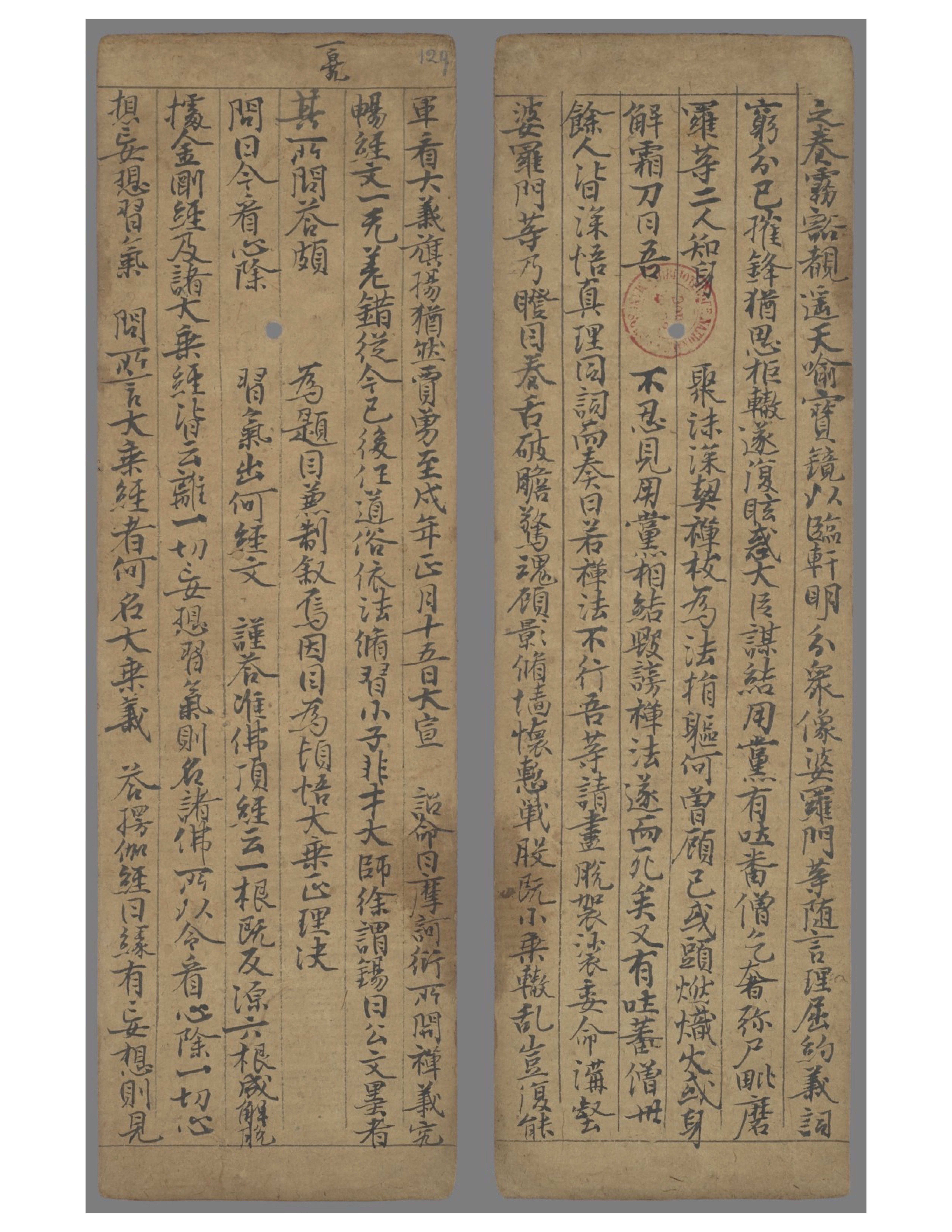 Page 129 of the manuscript Pelliot chinois 4646. This page is part of Dun wu da cheng zheng li jue(頓悟大乘正理決), which refers to an edict on Jan 15, 794 in which Trisong Detsen permits the doctrine of Moheyan